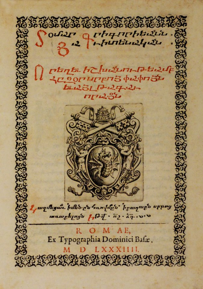 Grigorian Calendar, Rome, 1584.